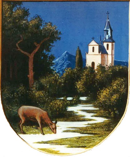 Coat of arms of Czech town Rychnov u Jablonce nad Nisou Česky: Znak města Rychnova u Jablonce nad Nisou. Blason: V modrém štítě zelená louka porostlá stromy a keři, zakončená modrou horou, s protékajícím potokem, z něhož zprava pije laň. Vlevo vzadu na zeleném návrší kostel se sedlovou střechou a zleva přiléhající zvonicí krytou břidlicí a zakončenou křížkem. V čelní zdi dveře, nad nimi a ve věži obloukové okno. Vše přirozené barvy.